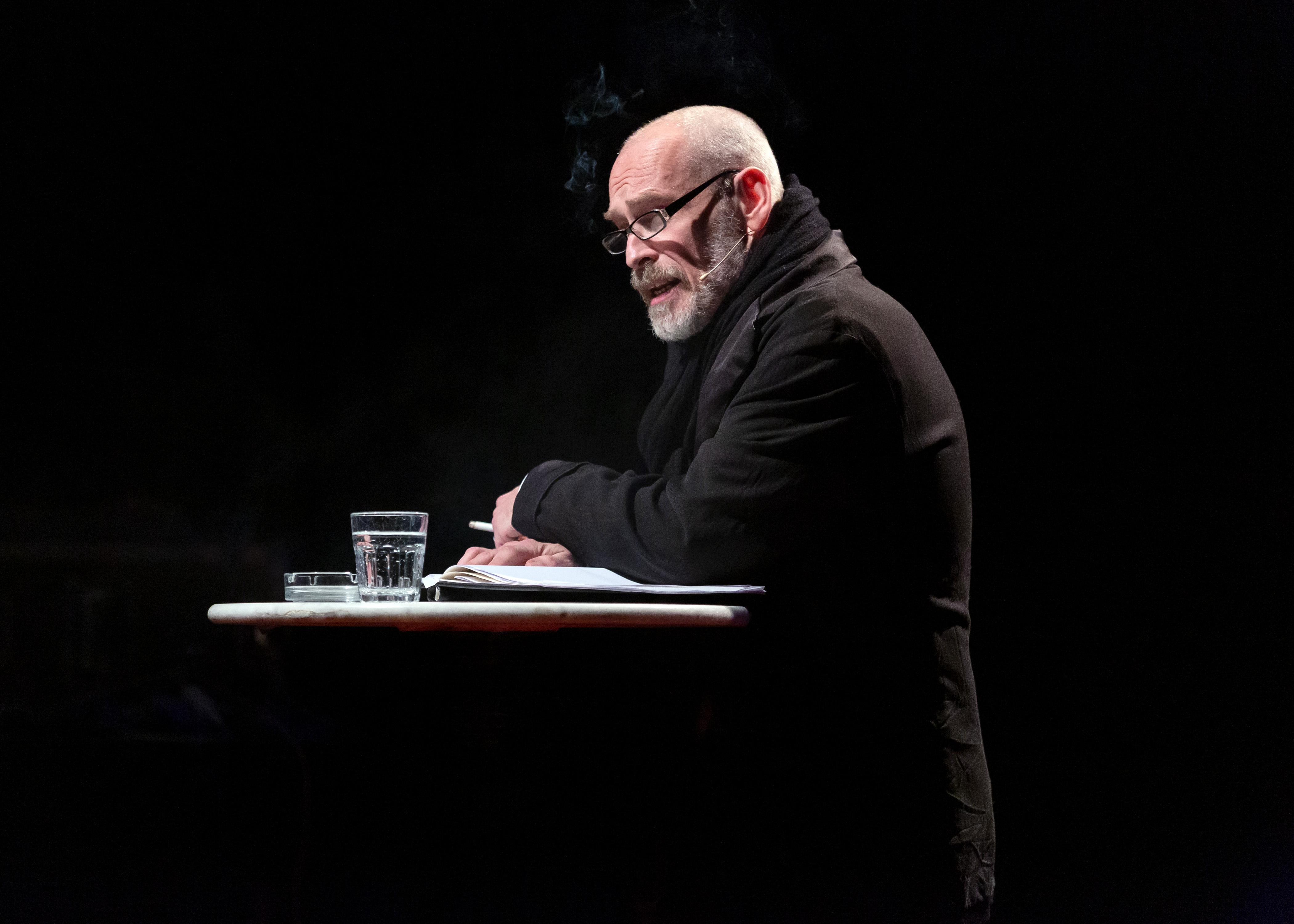 The Slow Club – Epilog, in memoriam Hansi Lang. A concert program with music by Lang and The Slow Club performed by: Thomas Rabitsch (keys, arr), Wolfgang Schlögl (el) and Andy Bartosh (git) with Madita, Birgit Denk, Tini Kainrath, Johannes Krisch and Roman Gregory (voc); Rabenhof Theater in Vienna, Austria.